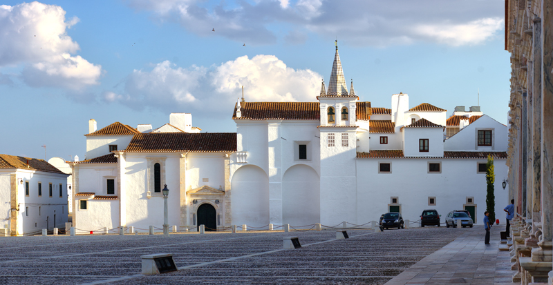 This file was uploaded for Wiki Loves Monuments in Portugal with the unique identifier 70208.